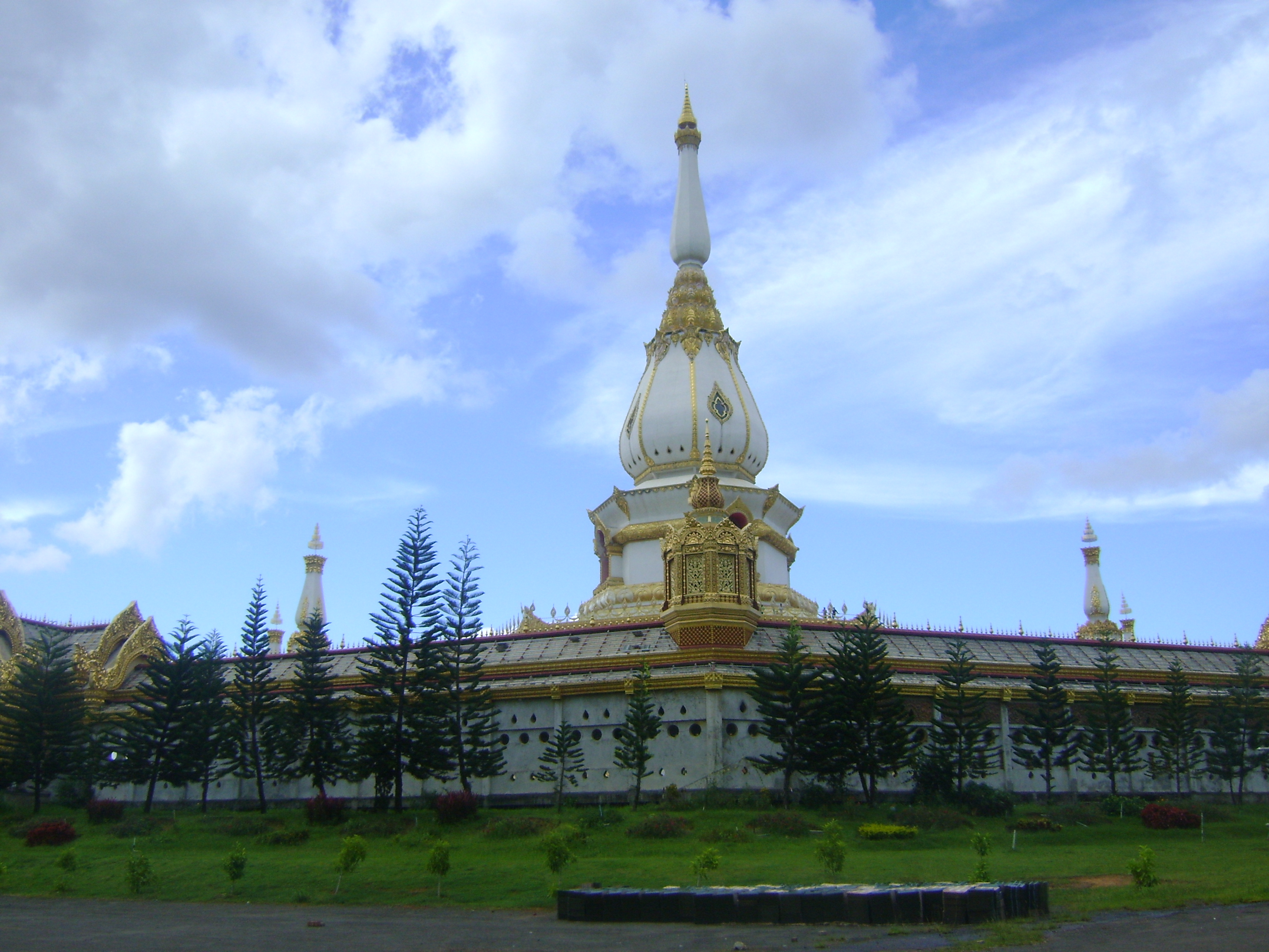 Phra Maha Chedi Chai Mongkol, Amphoe Nong Phok, Roi Et Province in northeast Thailand, one of the largest chedis (pagoda) in Thailand.